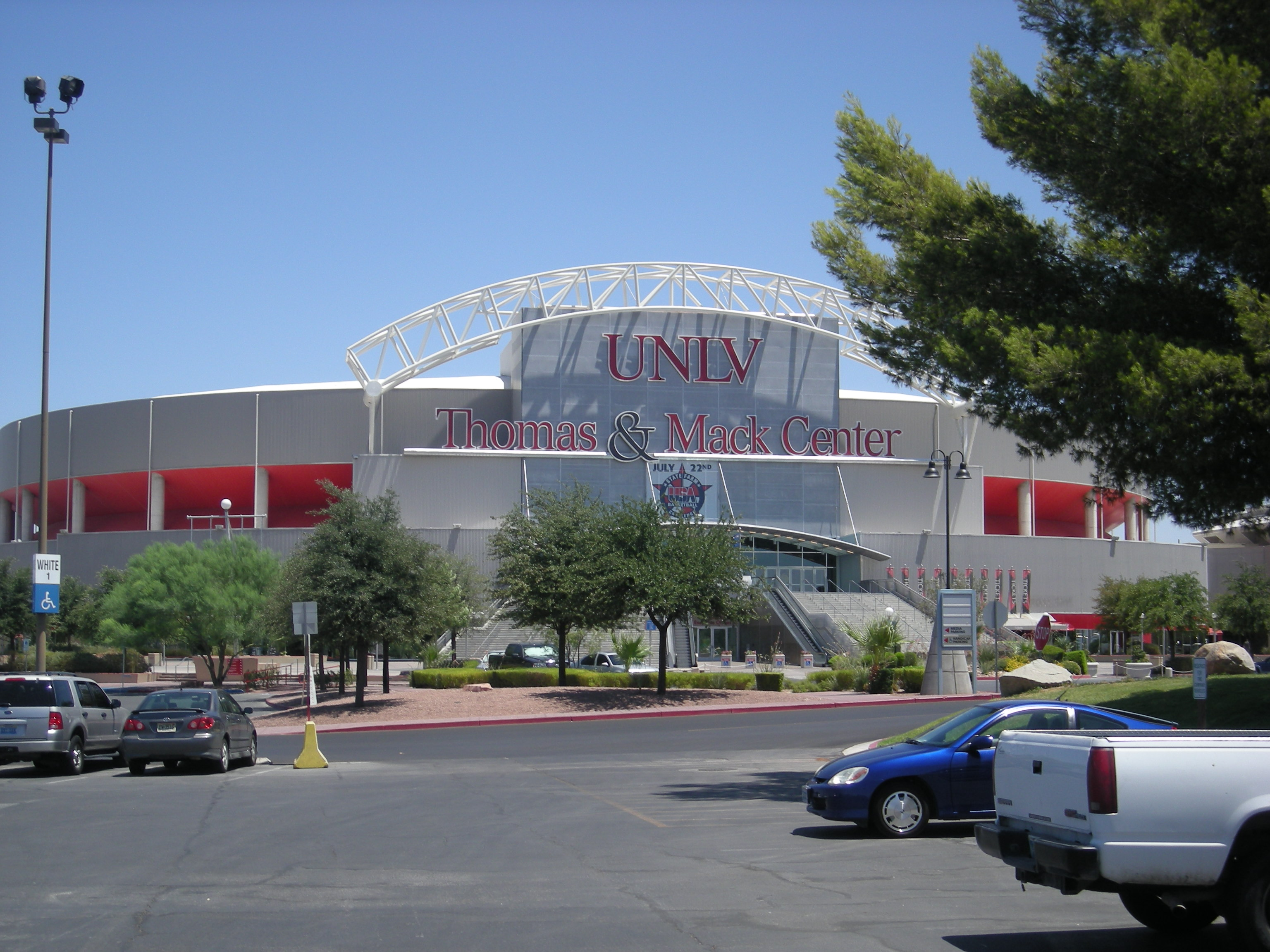 The exterior of the Thomas & Mack Center in Las Vegas, Nevada (United States).